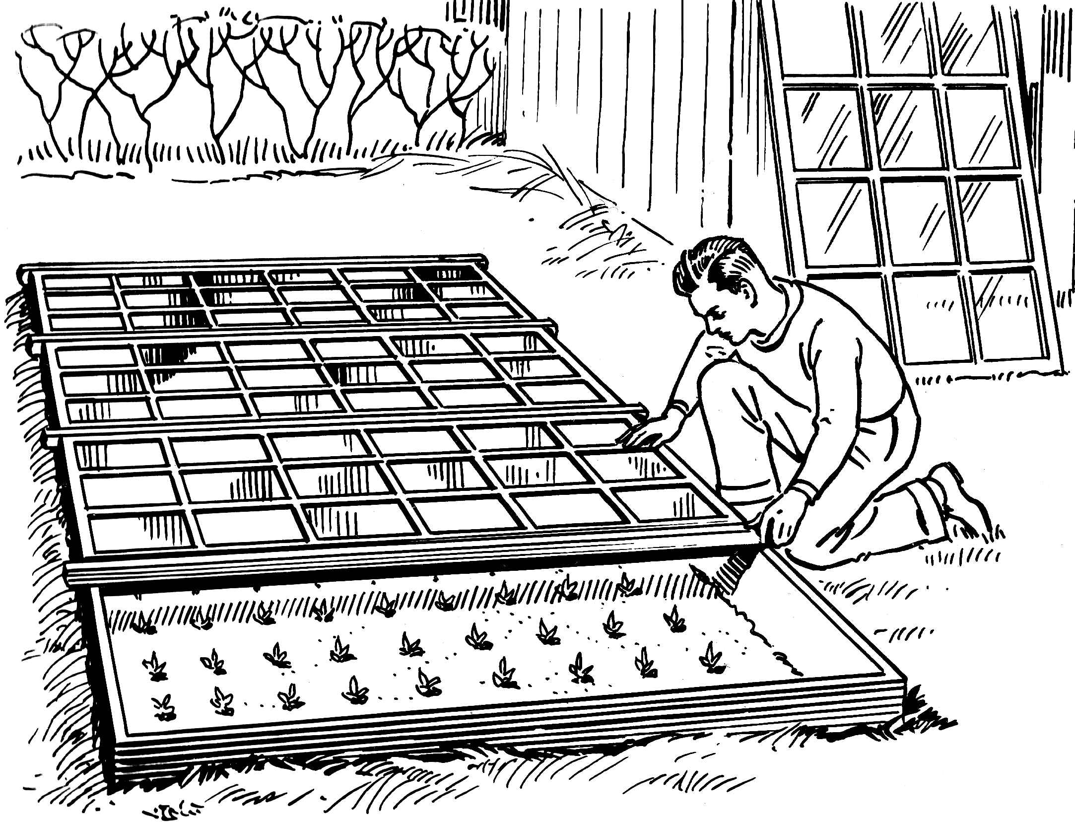 Hotbed, Greenhouse